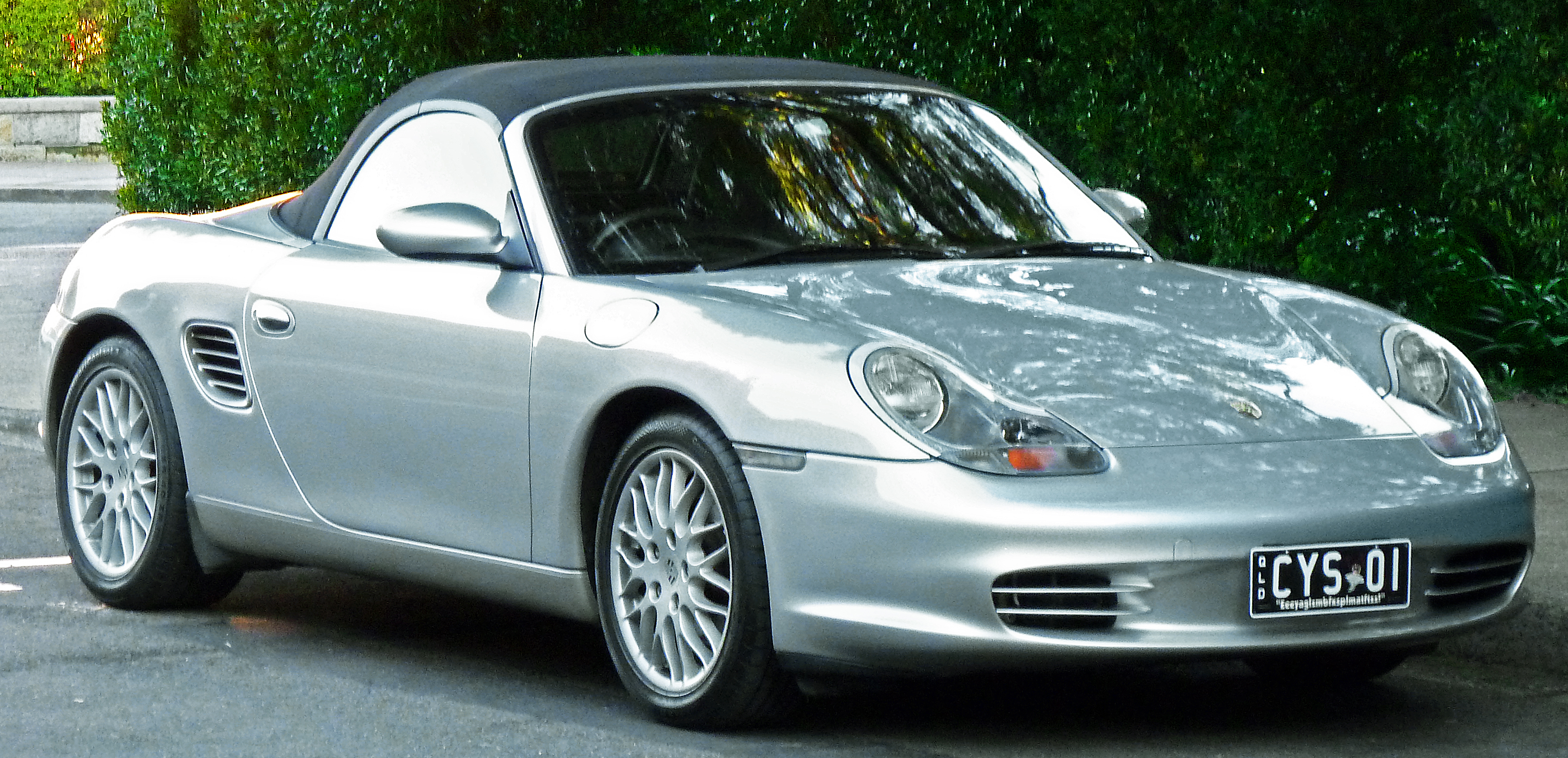 2003 Porsche Boxster (986) convertible. Photographed in Camperdown, New South Wales, Australia. Vehicle registration enquiry results Jurisdiction Queensland Registration CYS01 Chassis code WP0ZZZ98Z4U600066 Year of manufacture 2003